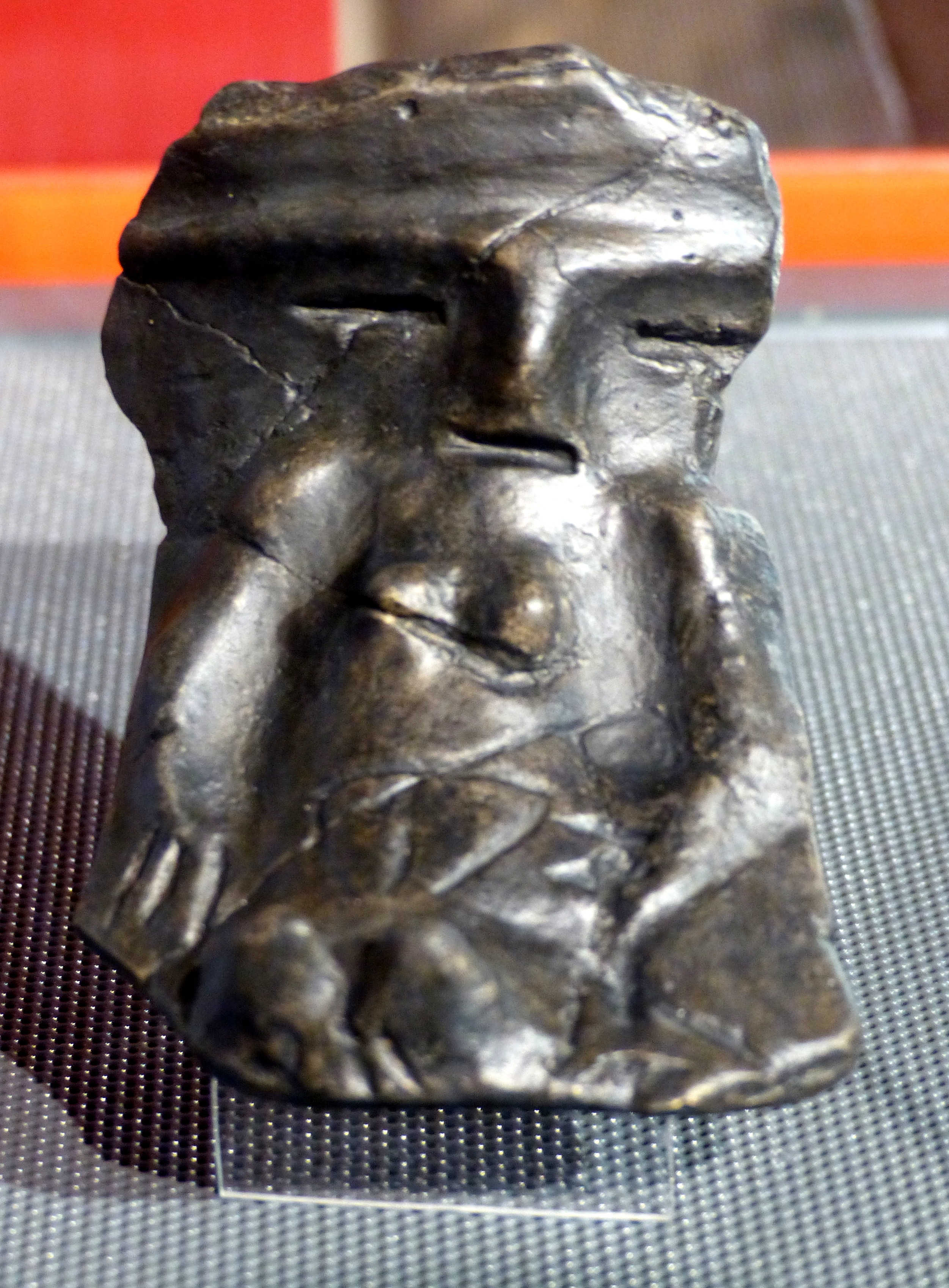 Eisenstadt ( Austria ). Burgenland Country Museum: Neolithic pottery fragment wth relief of a woman ( Venus of Draßburg ).